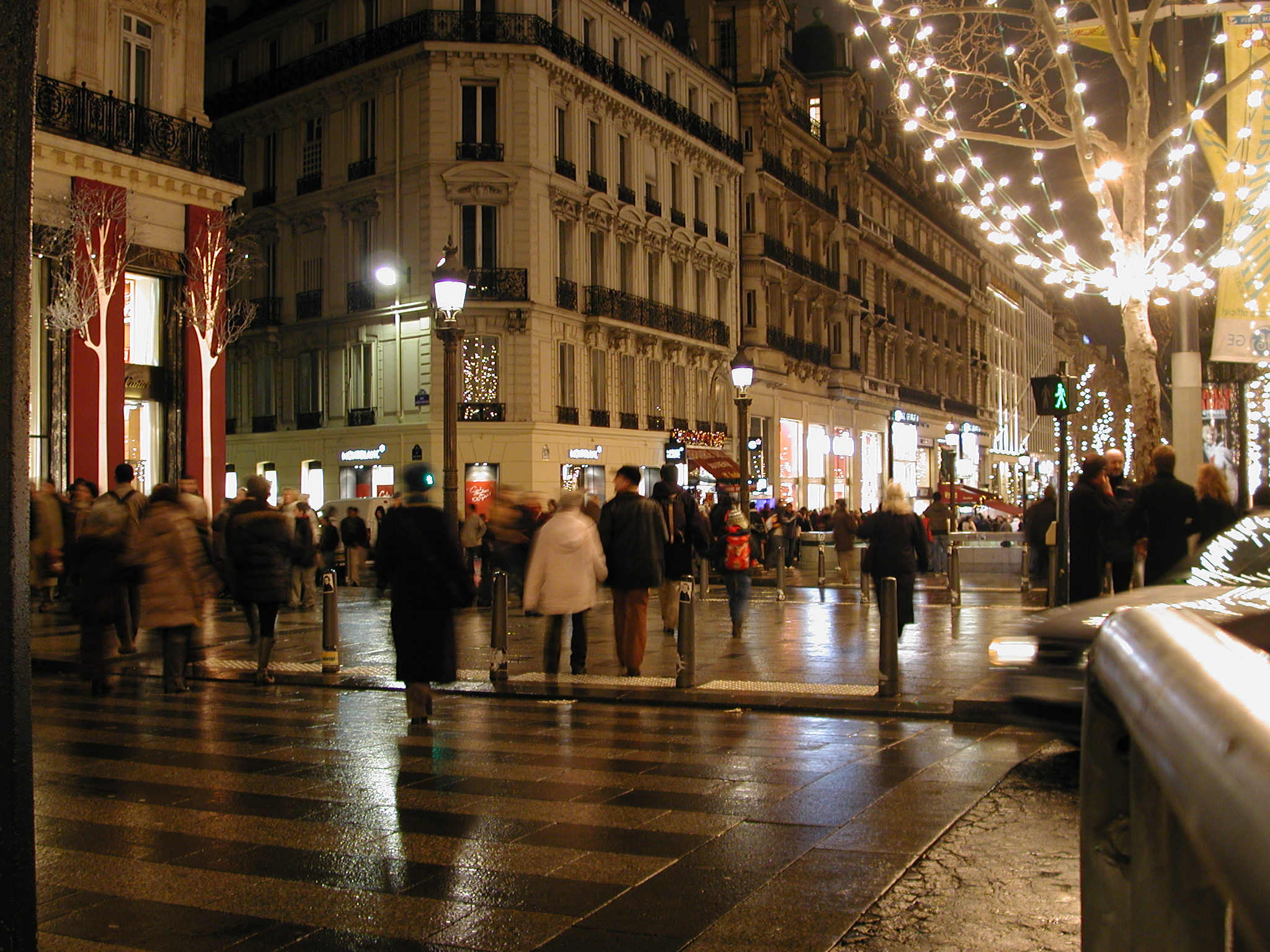 Champs Elisées sidewalk (Paris)